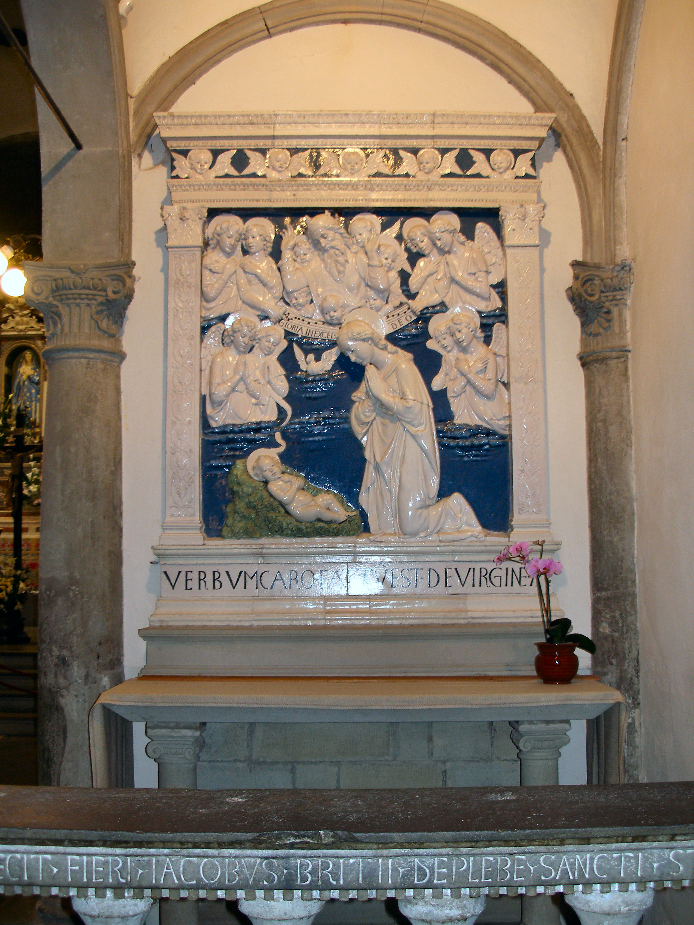 Andrea della Robbia, Birth of Christ, Santuario della Verna, Chiusi.